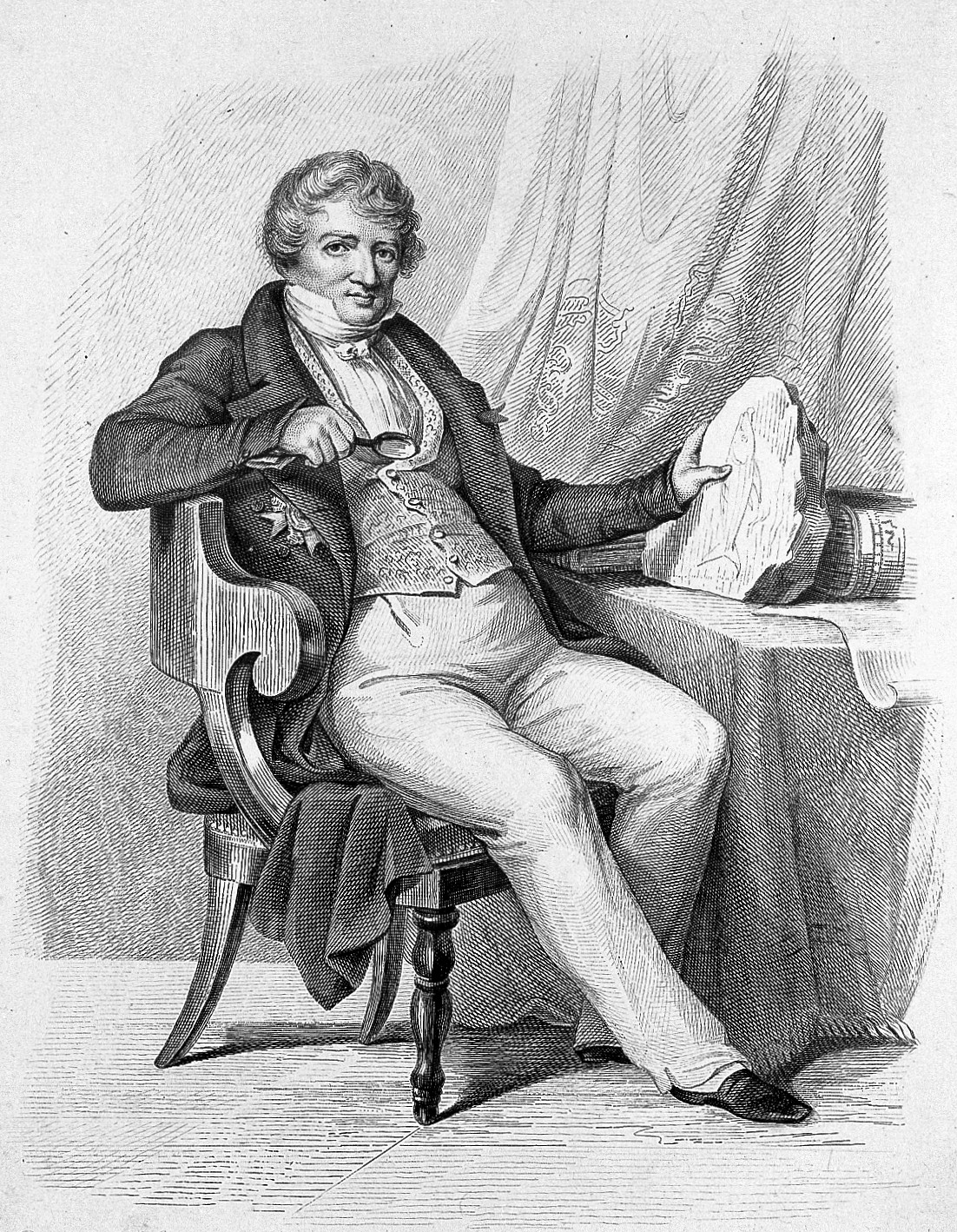 Portrait of Baron Georges Cuvier, holding a fish fossil Iconographic Collections Keywords: Georges Chretien Dagobert Cuvier; Chollet; Giraud